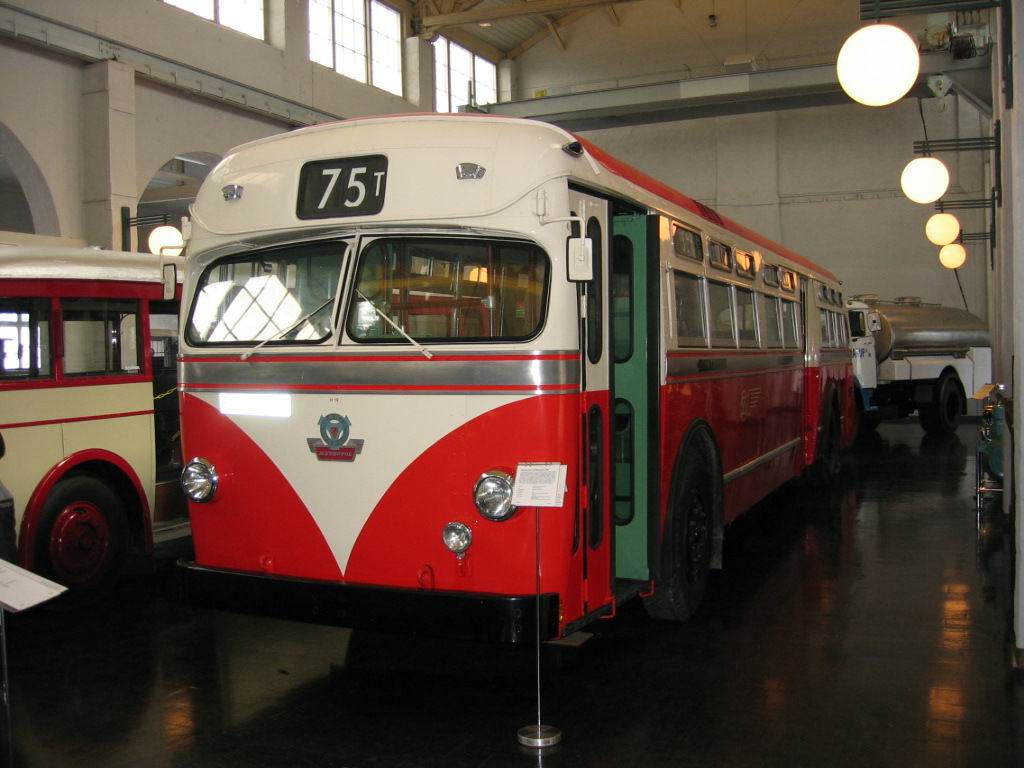 Scania-Vabis C50 Metropol vas built in close co-operation between Scania, Stockholms Spårvägar (the lokal busoperator in Stockholm) and the american carmanufacturer Mack. 200 ex of the Metropol was built between 1953 and 1954. This picture can be found in gallery Scania AB